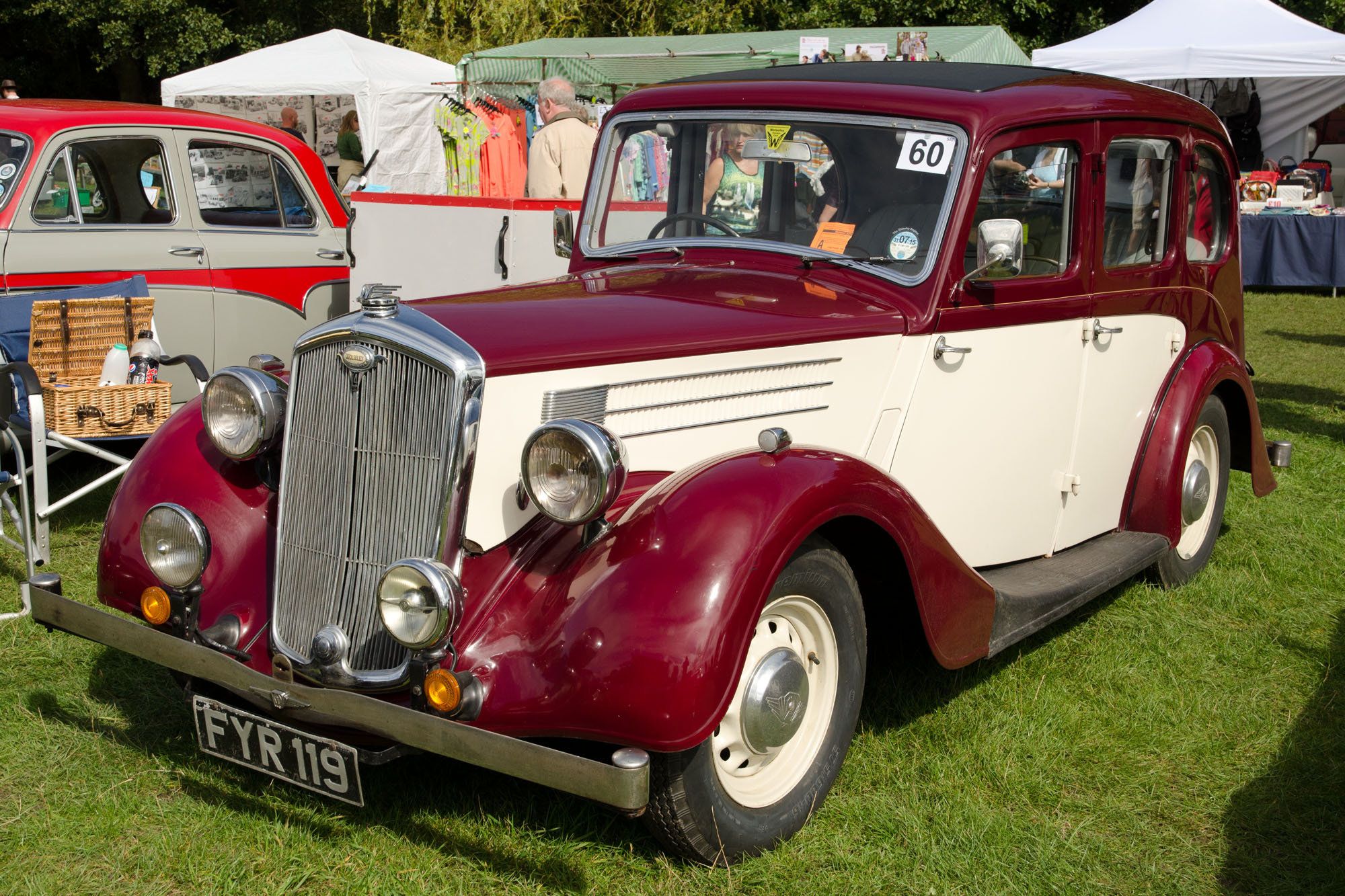 1939 Wolseley 14-60 Series III 6-light saloon (DVLA) first registered 2 October 1939, 1822cc Cholmondeley Classic Car Show 31/08/2014